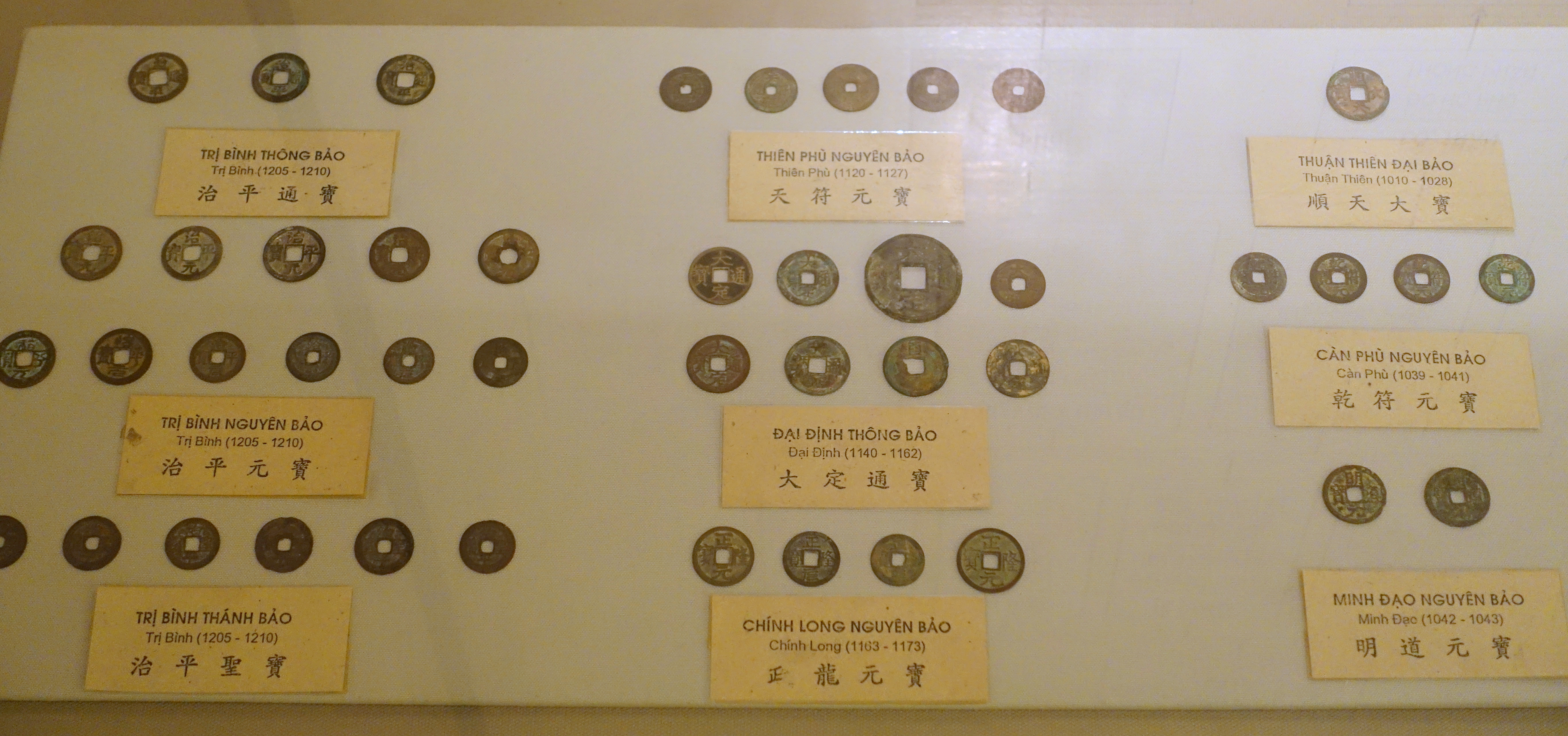 Exhibit in the National Museum of Vietnamese History, Hanoi, Vietnam. This artwork is old enough so that it is in the public domain.